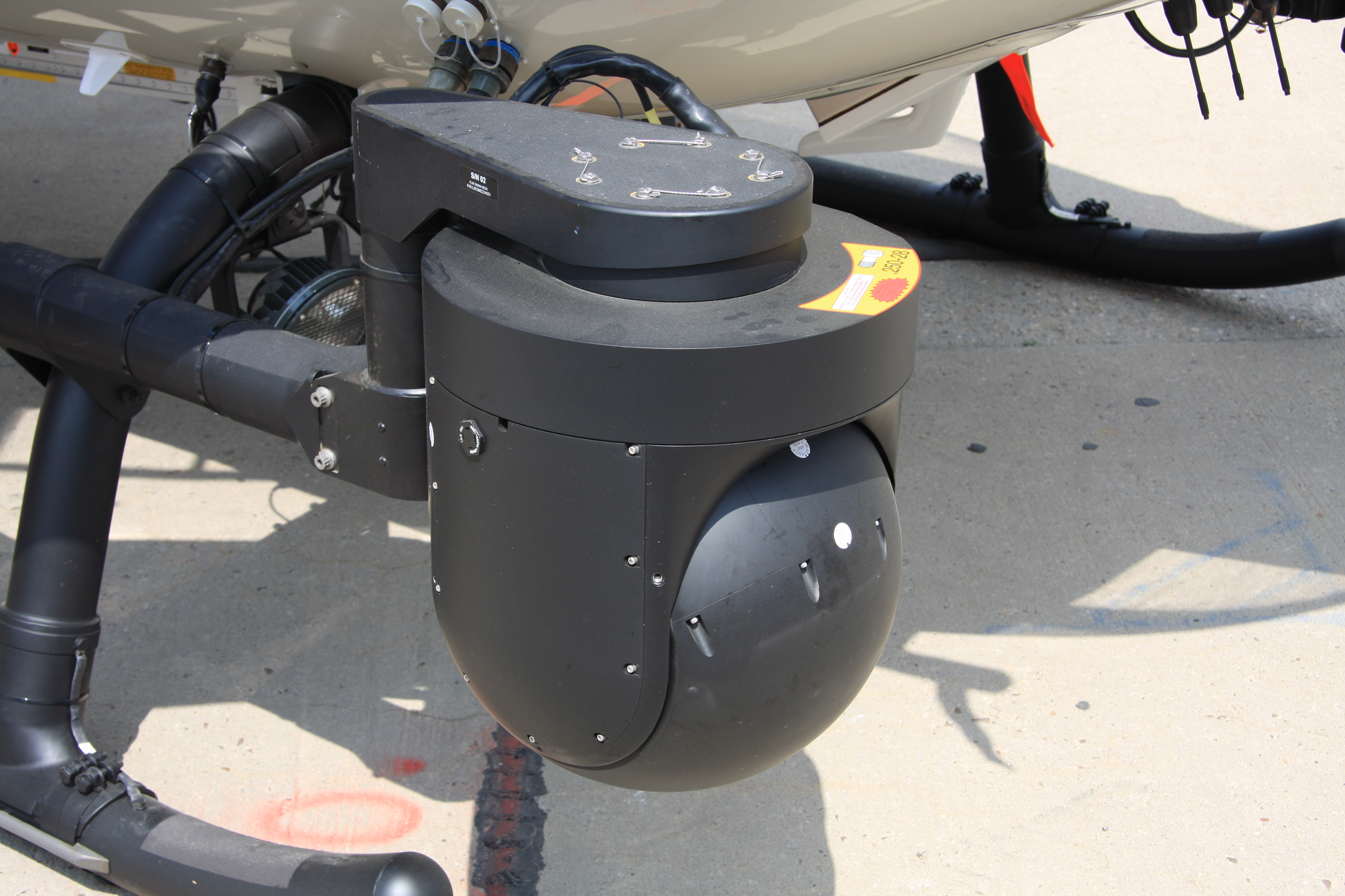 The thermographic camera on an EC 135 (picture taken during the International Air and Space Exhbition)